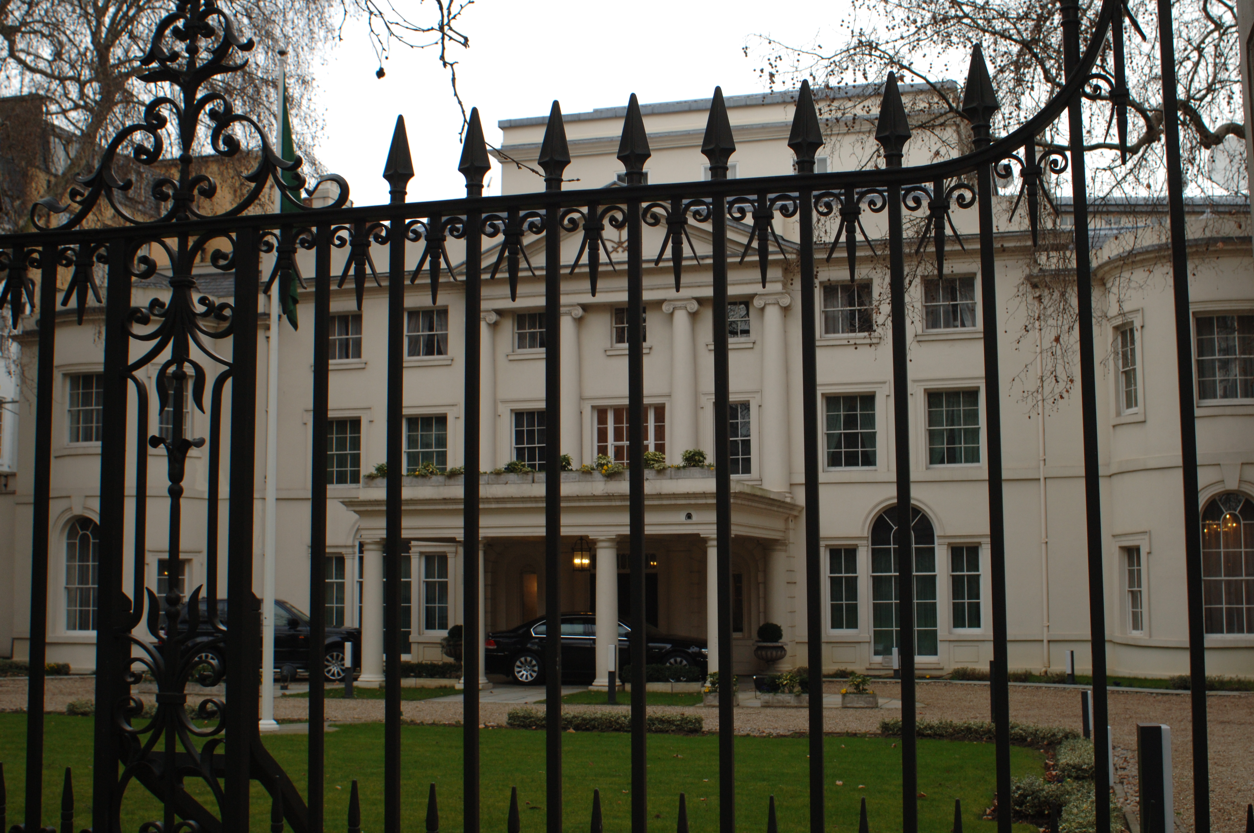 Saudi Embassy in London